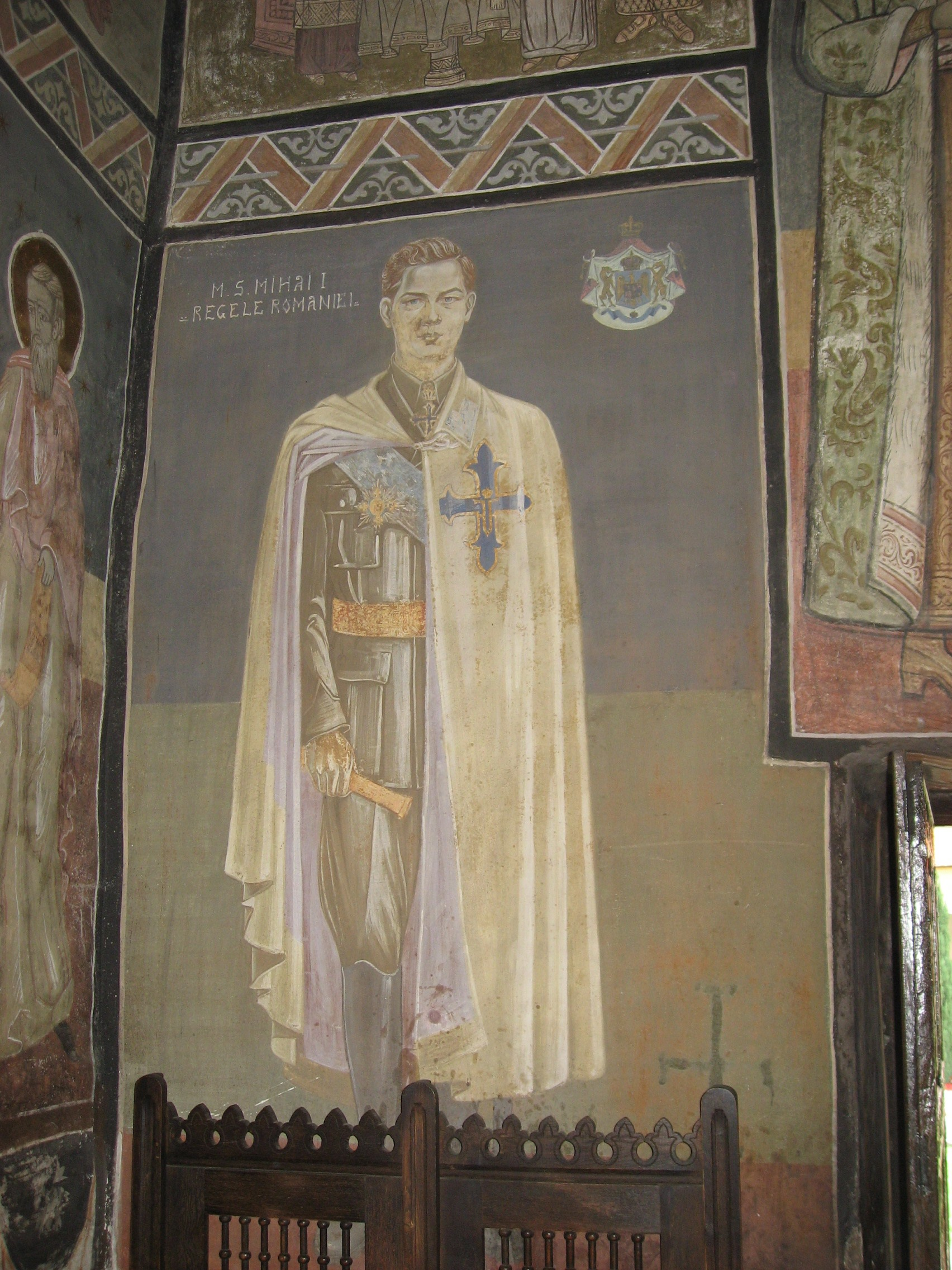 fresco of King Mihai I. of Romania in the old church of the Sâmbăta de Sus monastery